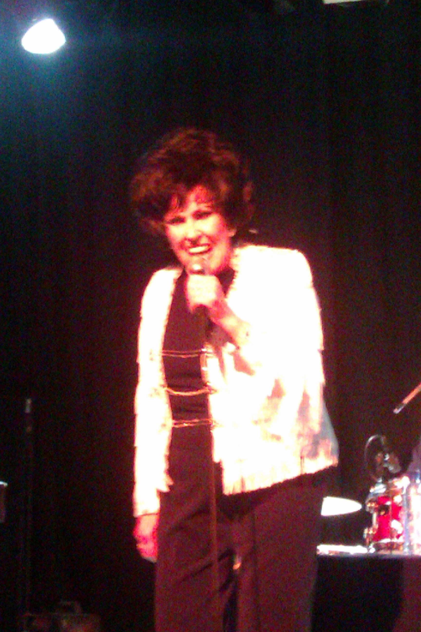 Wanda Jackson during a concert at 013 Tilburg